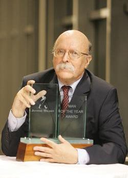 Giovanni Bonello, former Judge of the ECHR